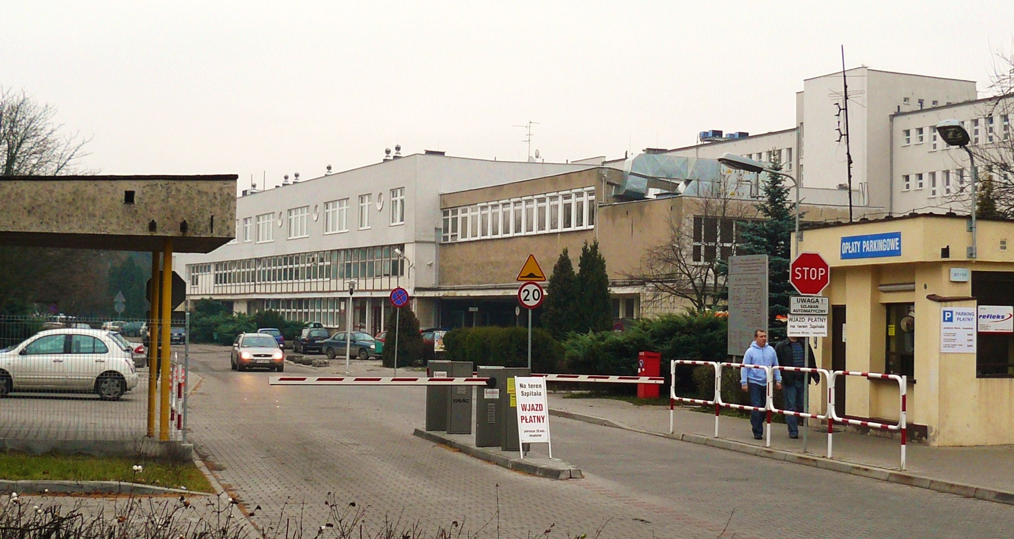 Psych. Hosp. Poznan, Grochowska Street.